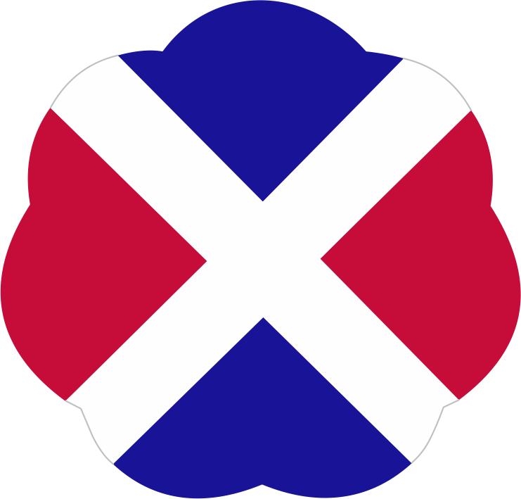 17th infantry Division patch United States